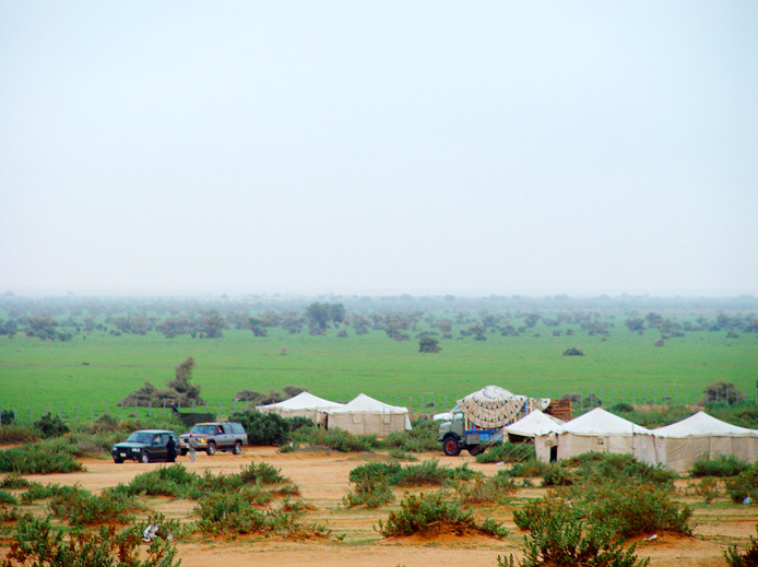 During Winter, it is rainy. A lot of families are going for picnics.